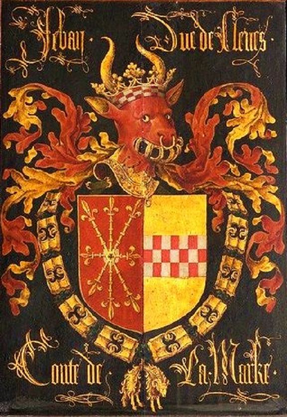 Coats of arms of the Duchy of Cleves-La Mark. Golden Fleece Order stallplate of 48. John I, Duke of Cleves (1419–1481), O.L.Vrouw kerk Brugge, by Pierre Coustain 1468.